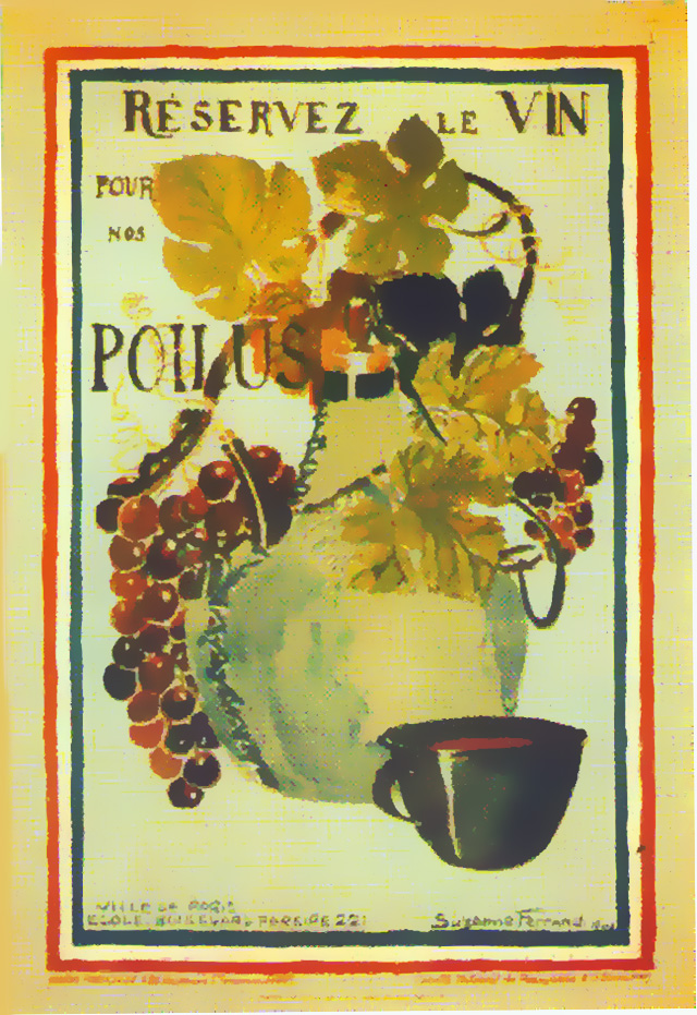 Poster Vin aux poilus WW I